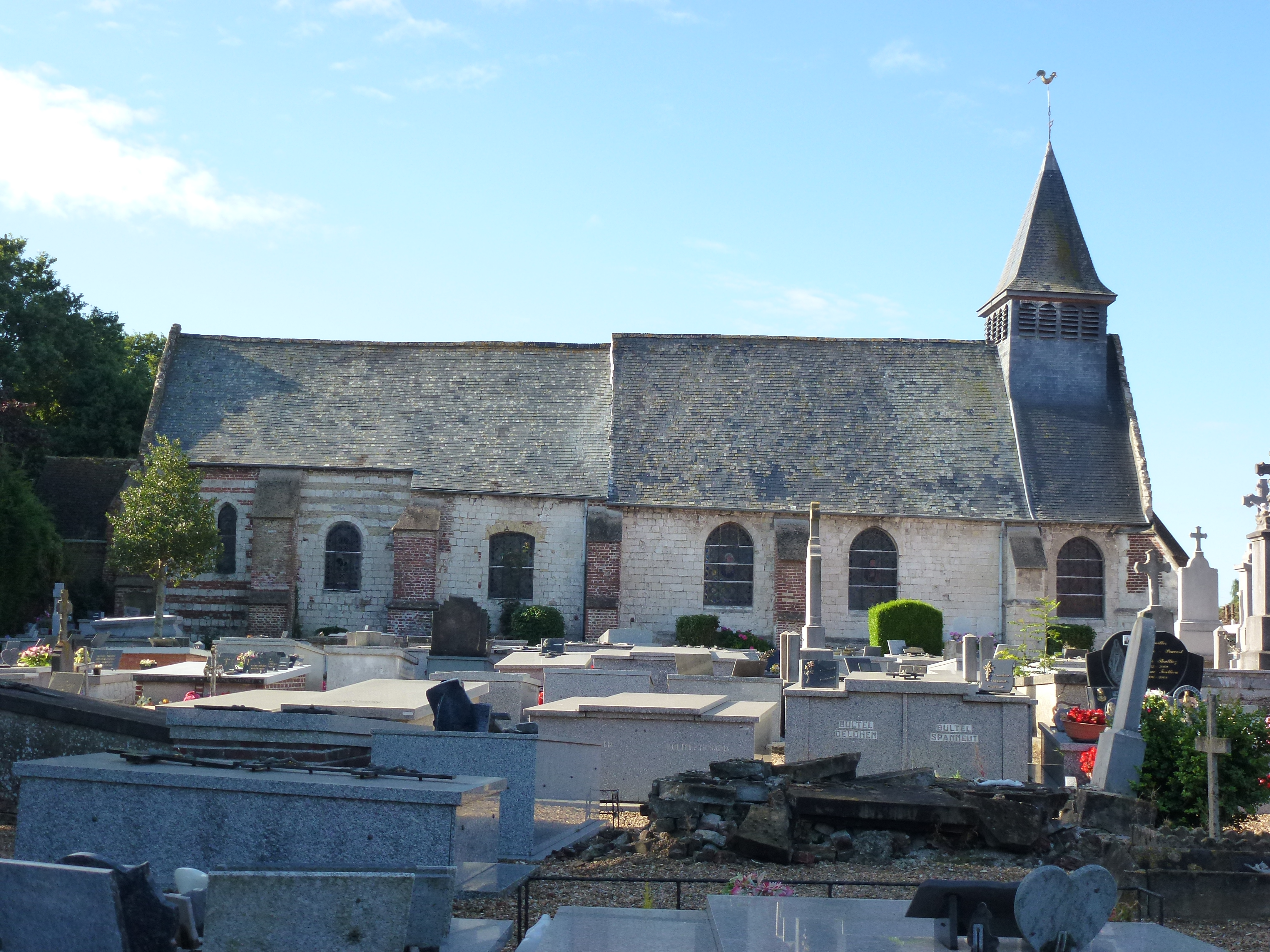 Heuringhem (Pas-de-Calais, Fr) église Saint-Riquier